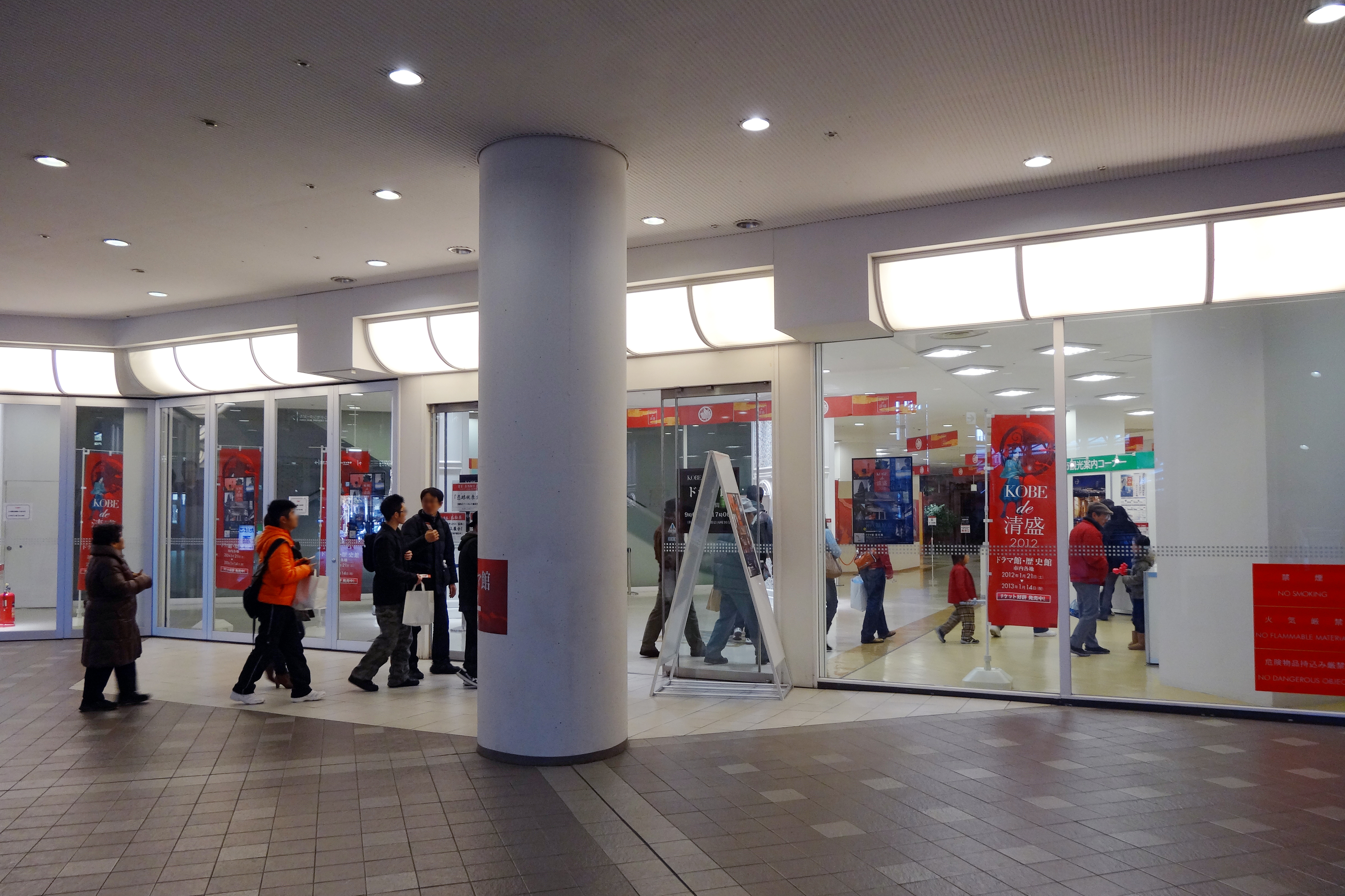 Taira_no_Kiyomori_Drama_Museum in Kobe, Hyogo prefecture, Japan